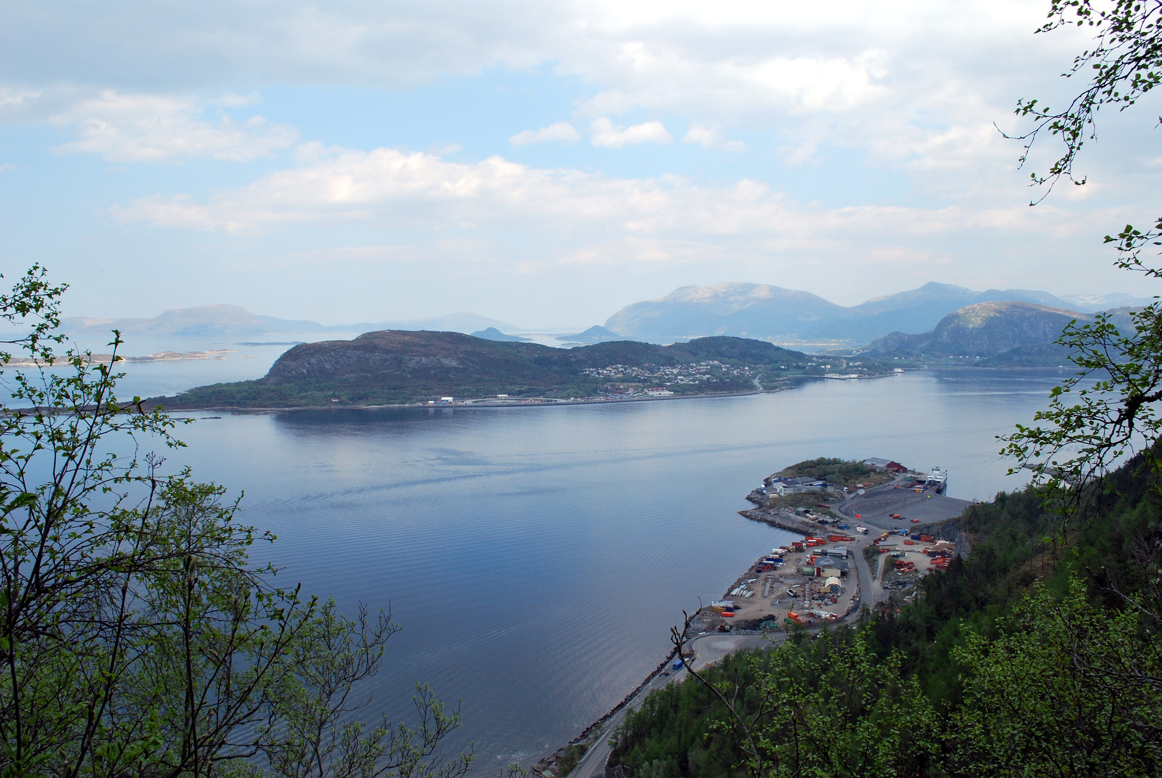 Flatholmen, Ellingsøyfjorde, with Ellingsøya in the background, Ålesund.